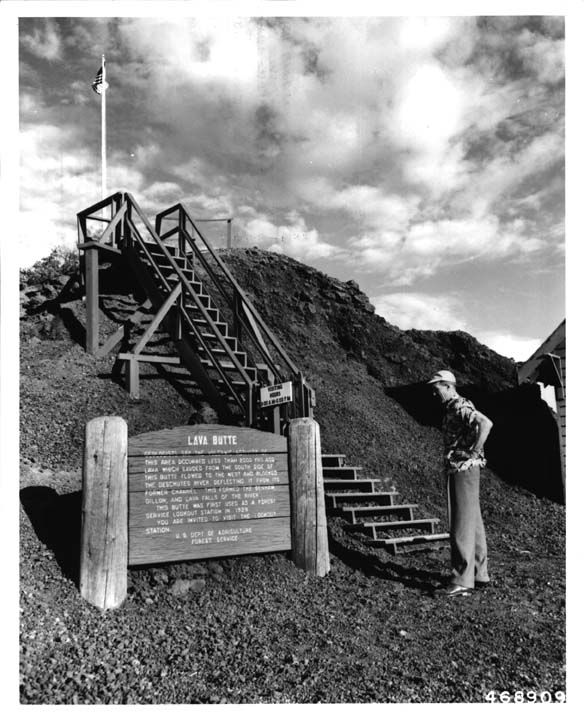 Summit of Lava Butte showing visitor reading sign.